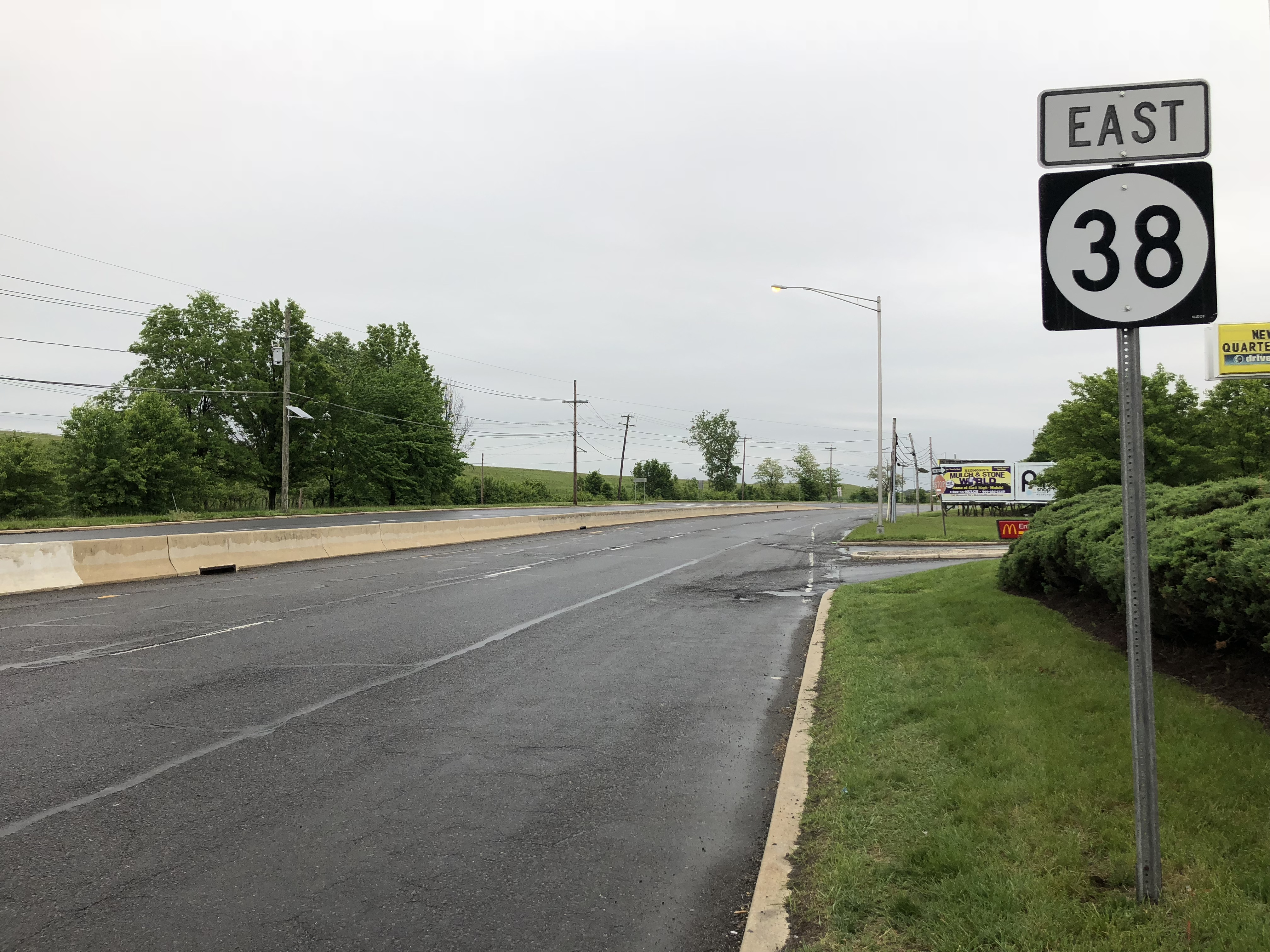 View east along New Jersey State Route 38 just west of Burlington County Route 612 (Pine Street/Eayrestown Road) in Mount Holly Township, Burlington County, New Jersey